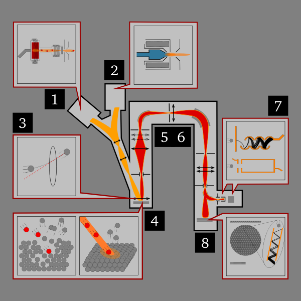 Title: SIMS - Secondary Ion Mass Spectrometry, instrument scheme Author: Twisp Date: 06.02.2006